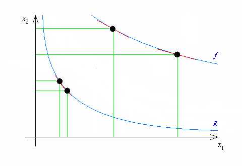 Isoquants/indifference curves with different elasticities of substitutions